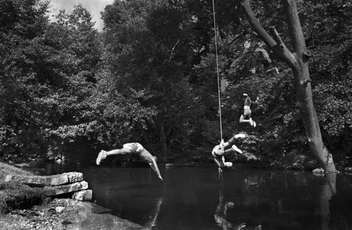 Local paper #07: Local recreation area in Germany